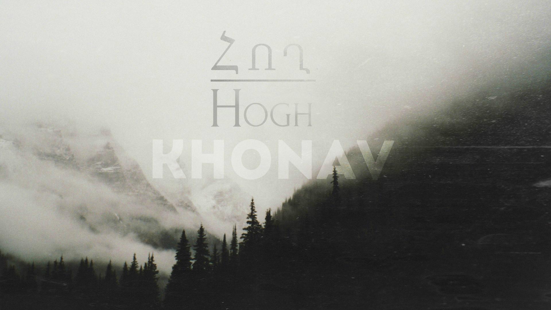 Խոնավ